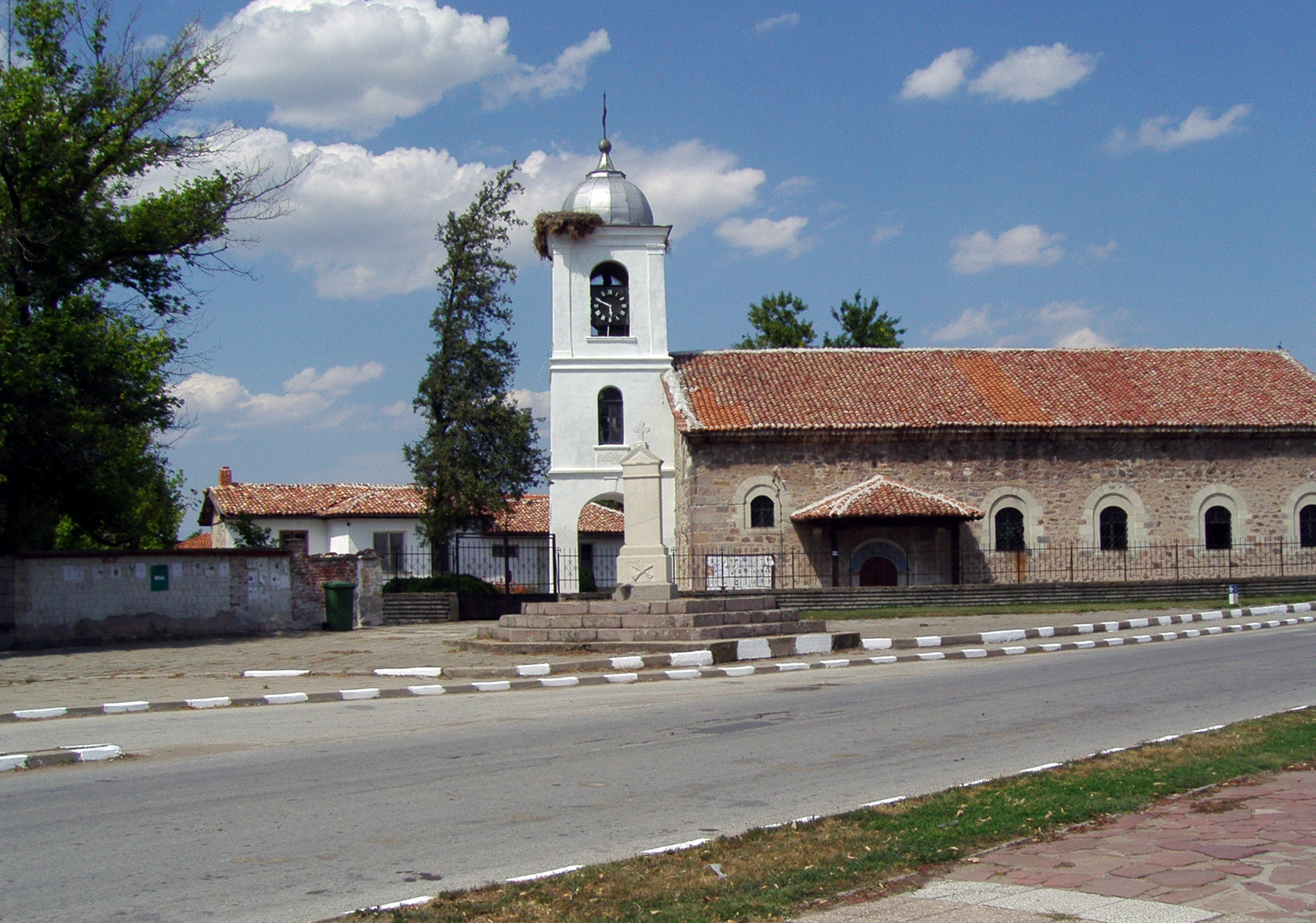 The church in village Dalbok izvor, Bulgaria